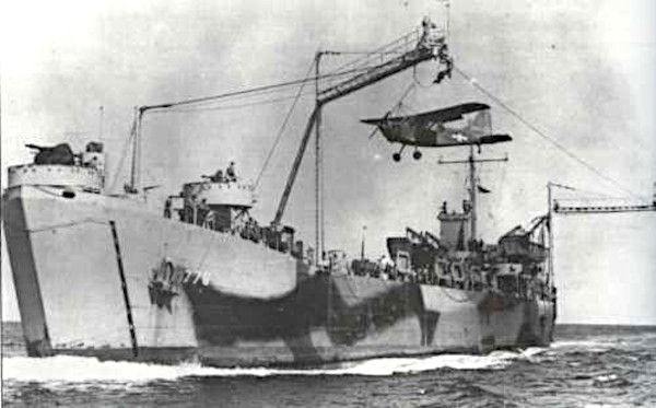 USS LST-776 during Brodie system trials off New Orleans